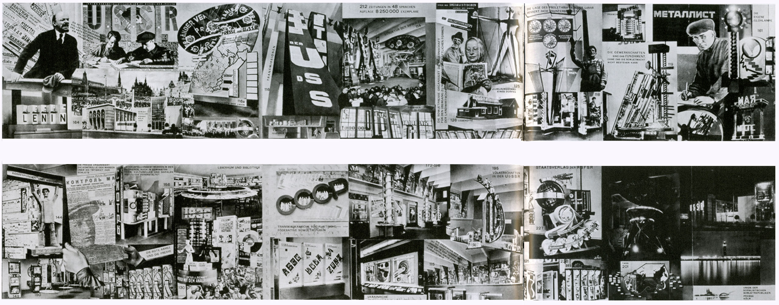 El Lissitzky 1928 photomontage foldout for the 1928 Press Expo in Cologne. Numbers correspond to the exhibits of the USSR, which then rented the existing main hall at the fairground.